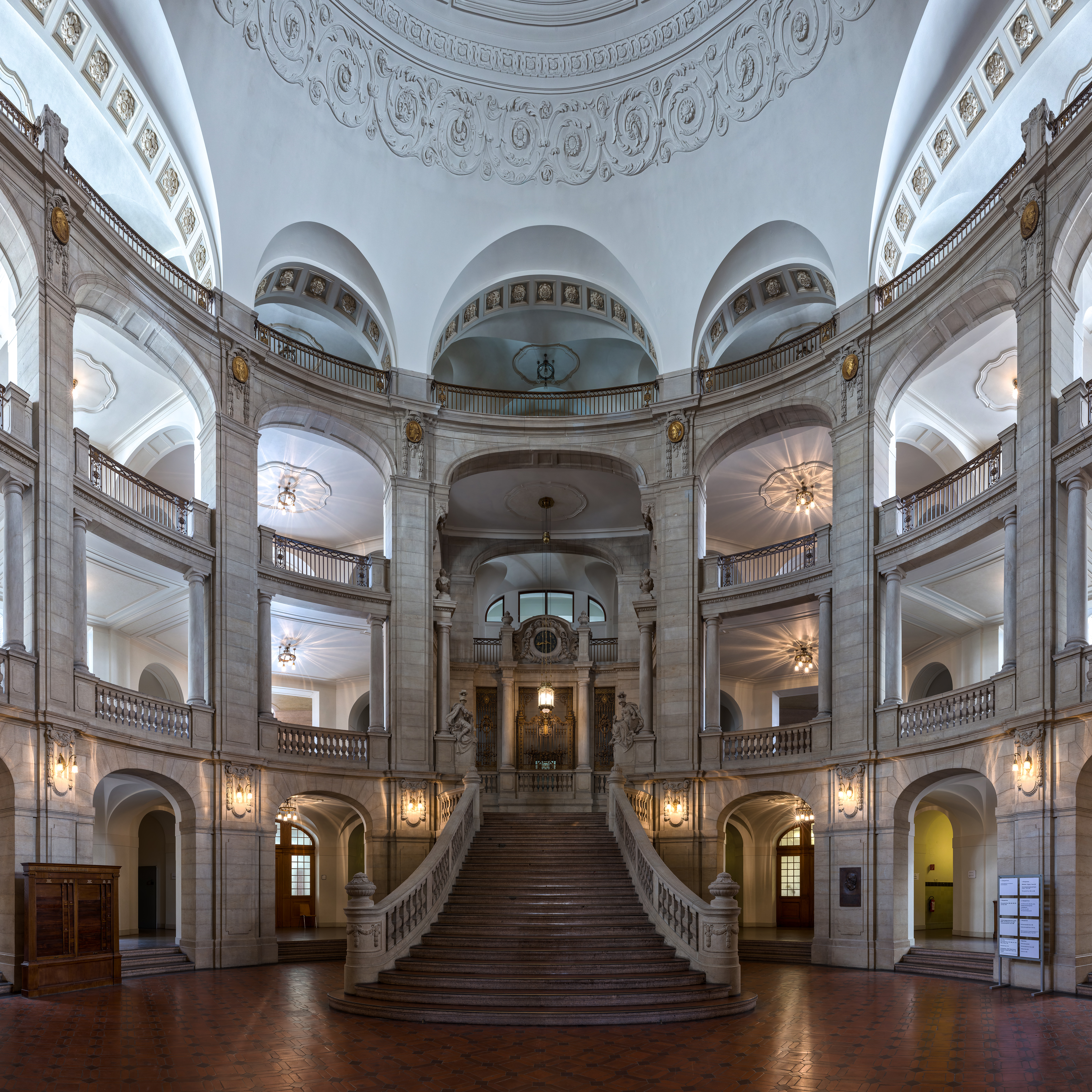 Entrance hall of Kammergericht (higher regional court) in Berlin-Schöneberg.